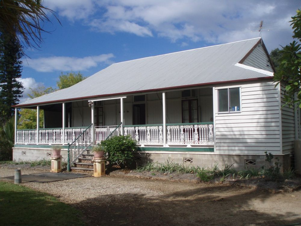 Langmorn Homestead, main entry (2009)